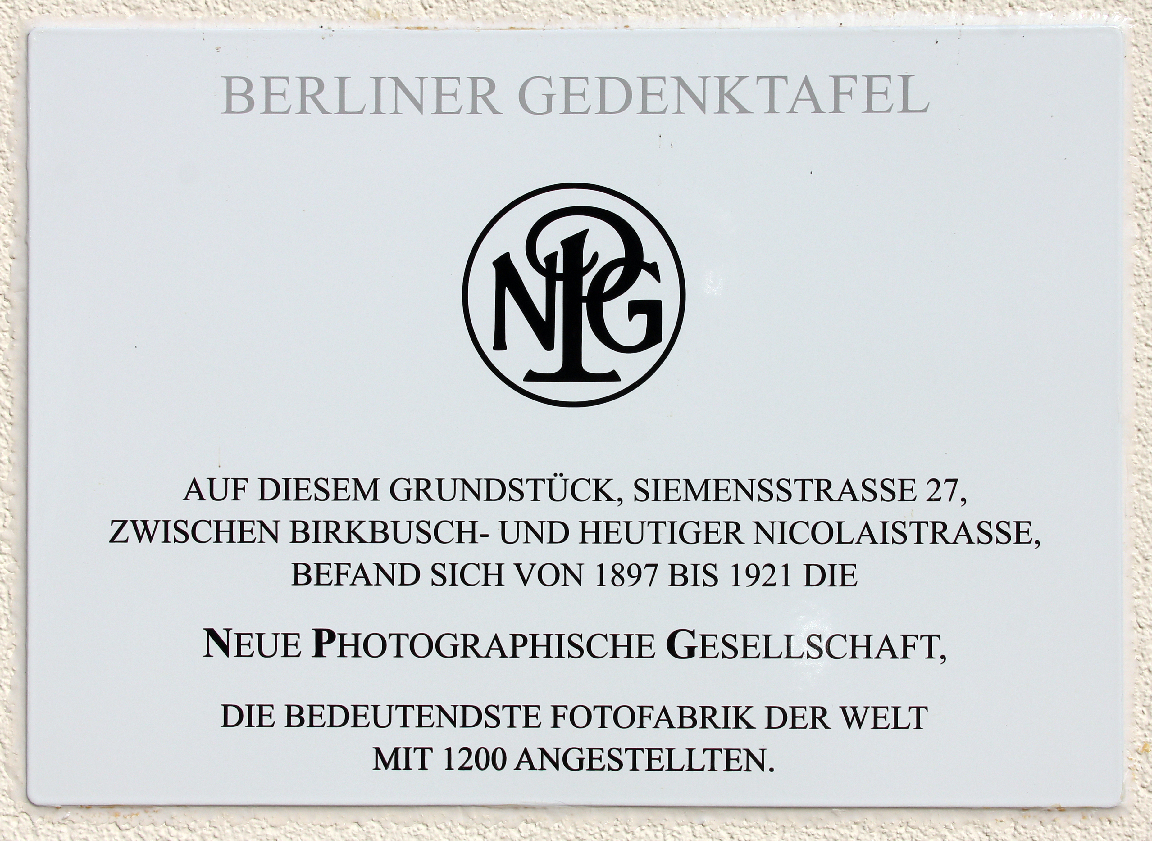 Memorial plaque, Neue Photographische Gesellschaft, Siemensstraße 26a, Berlin-Lankwitz, Germany